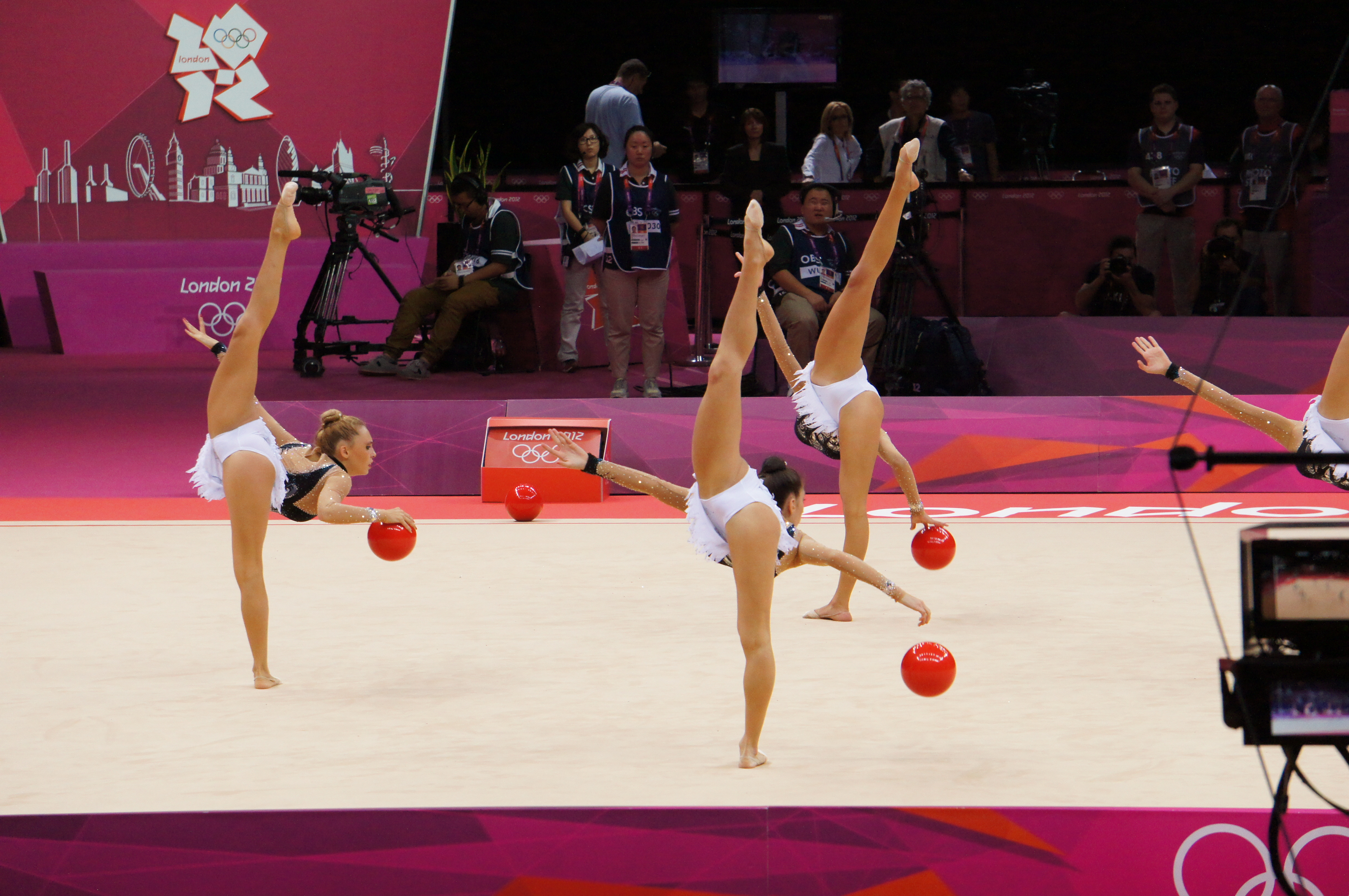 Rhythmic gymnastics at the 2012 Summer Olympics